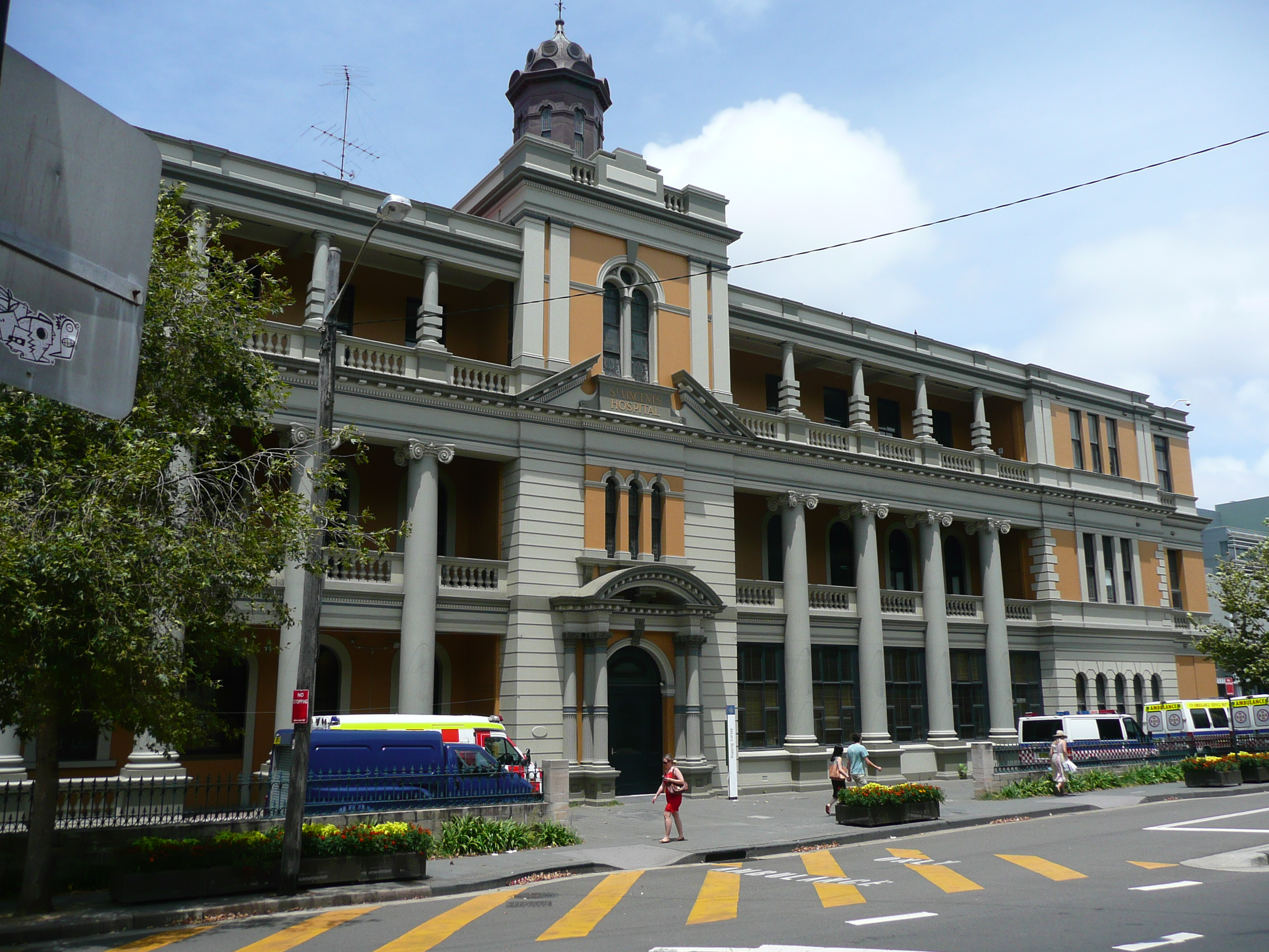 St Vincent's Hospital, Sydney